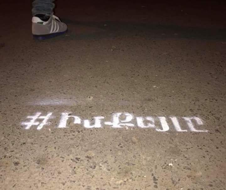 "My Step" Graffiti in Yerevan